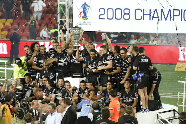 Kiwis Team Photo